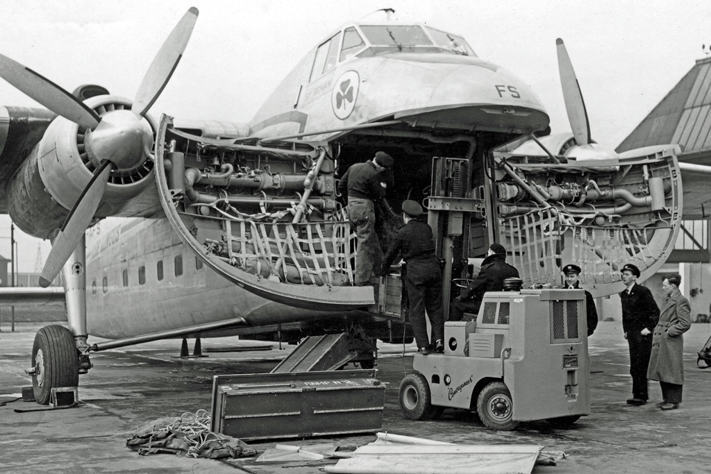 Bristol 170 Freighter 31 EI-AFS of Aer Lingus at Manchester Airport in 1952 showing open clamshell nose doors